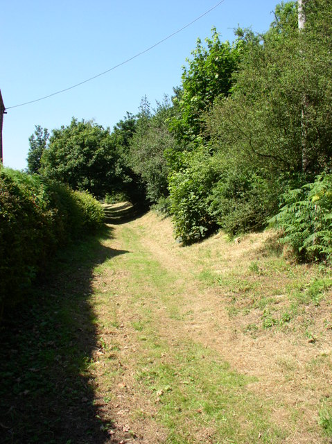 Wat's Dyke Wat's Dyke is a 40 mile earthwork running through the northern Welsh Marches from Basingwerk Abbey to Maesbury in Shropshire. It runs generally parallel to Offa's Dyke, sometimes within a few yards but never more than three miles away. Here it is to the west of Northop.